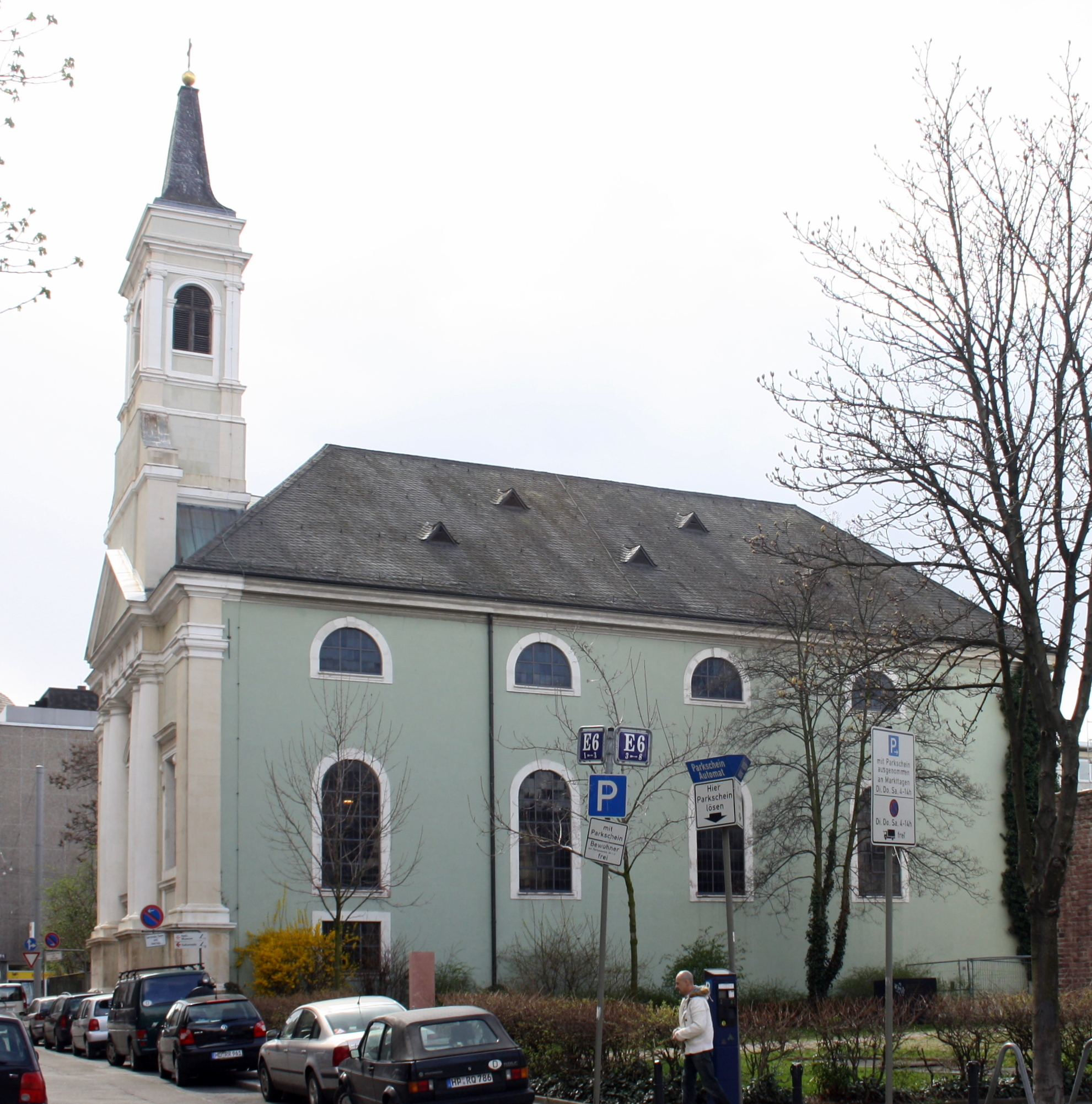 Mannheim, Germany. Church of the former burghers' hospital from North.